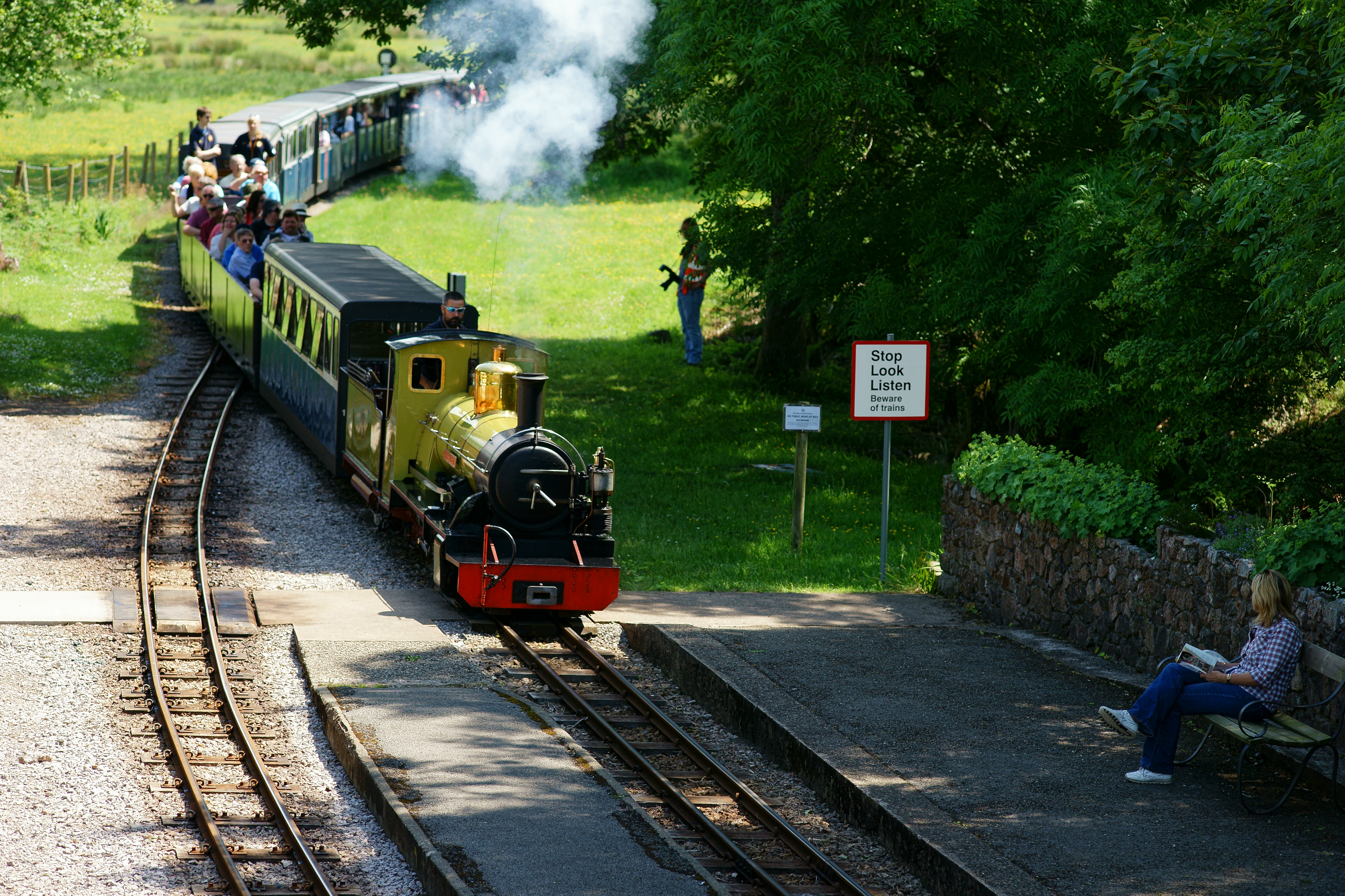 R&ER No. 10 Northern Rock arrives at Irton Road with a train for Ravenglass